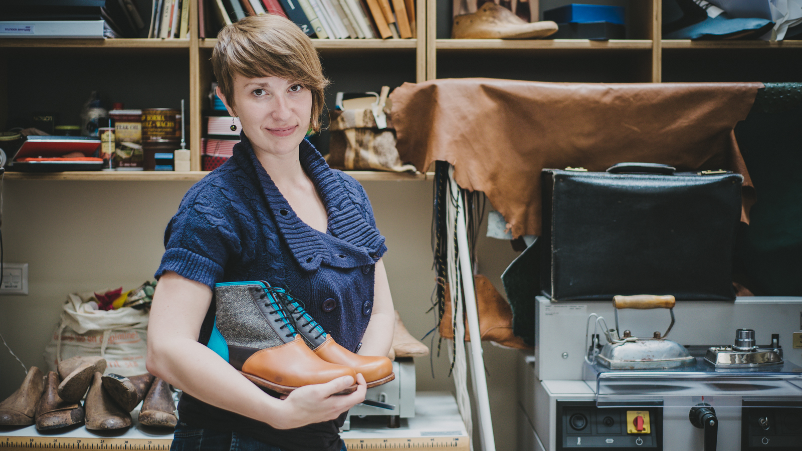 Sille Sikmann in her studio.